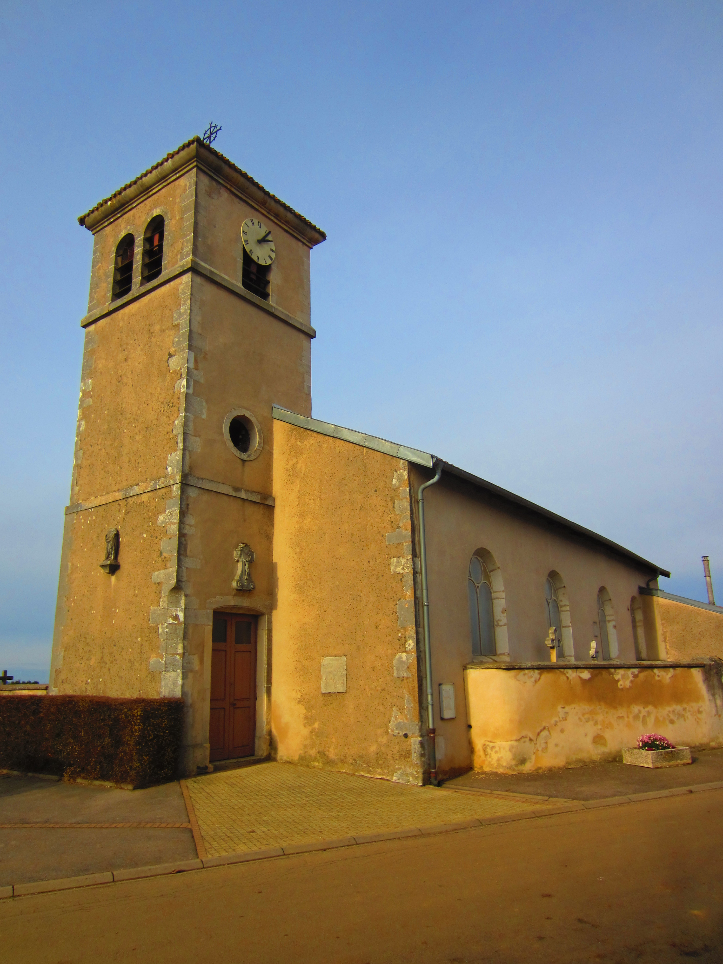 Ste Genevieve 54 church